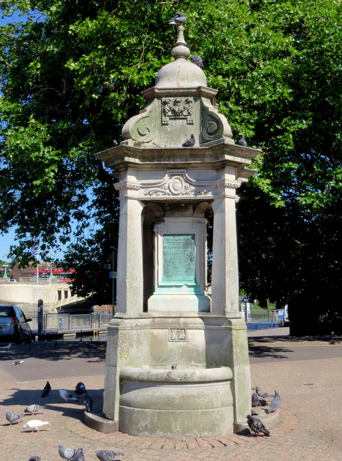 Victorian drinking fountain near Caversham Bridge